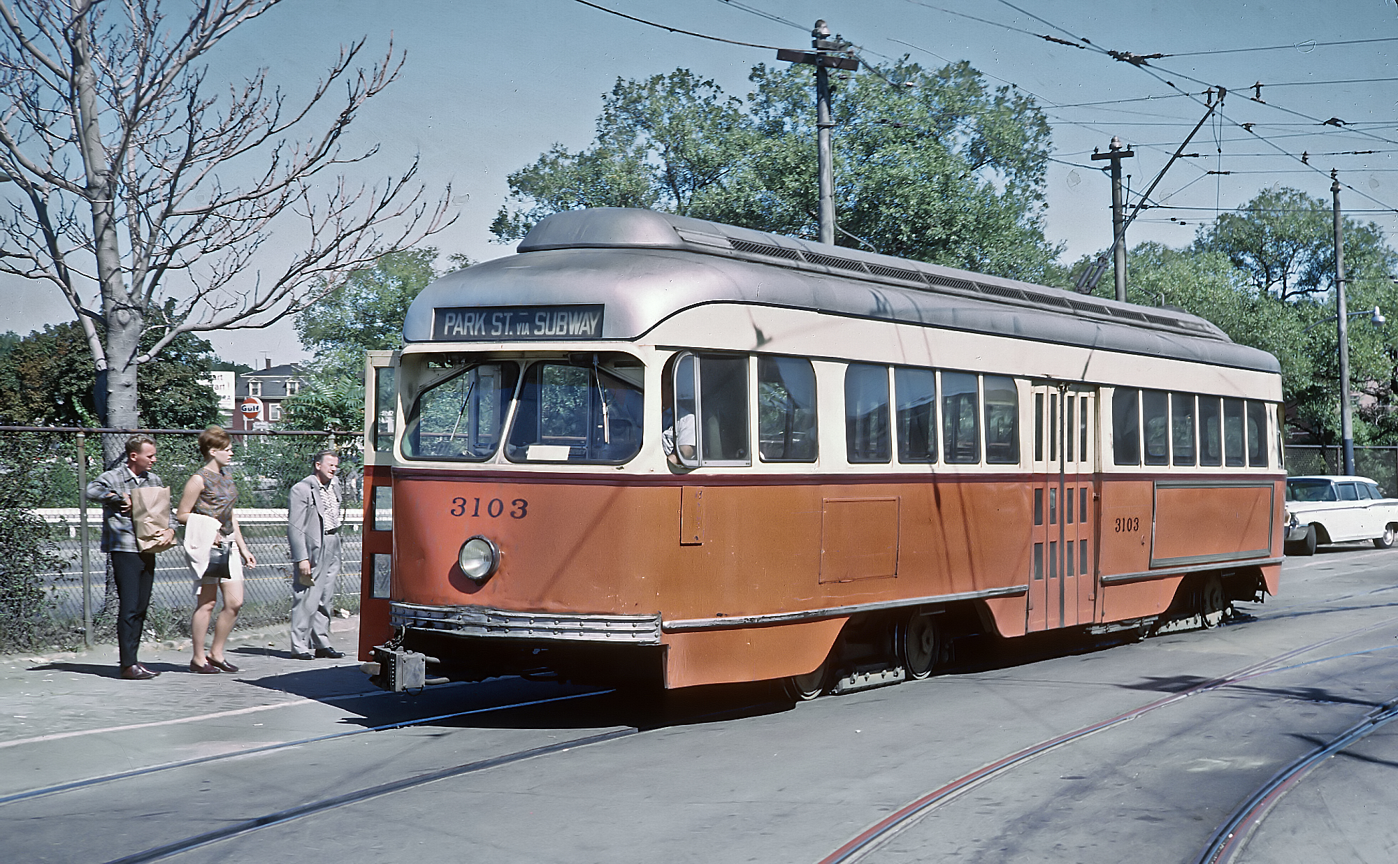 PCC streetcar #3103 boards passengers at Watertown Yard in September 1965